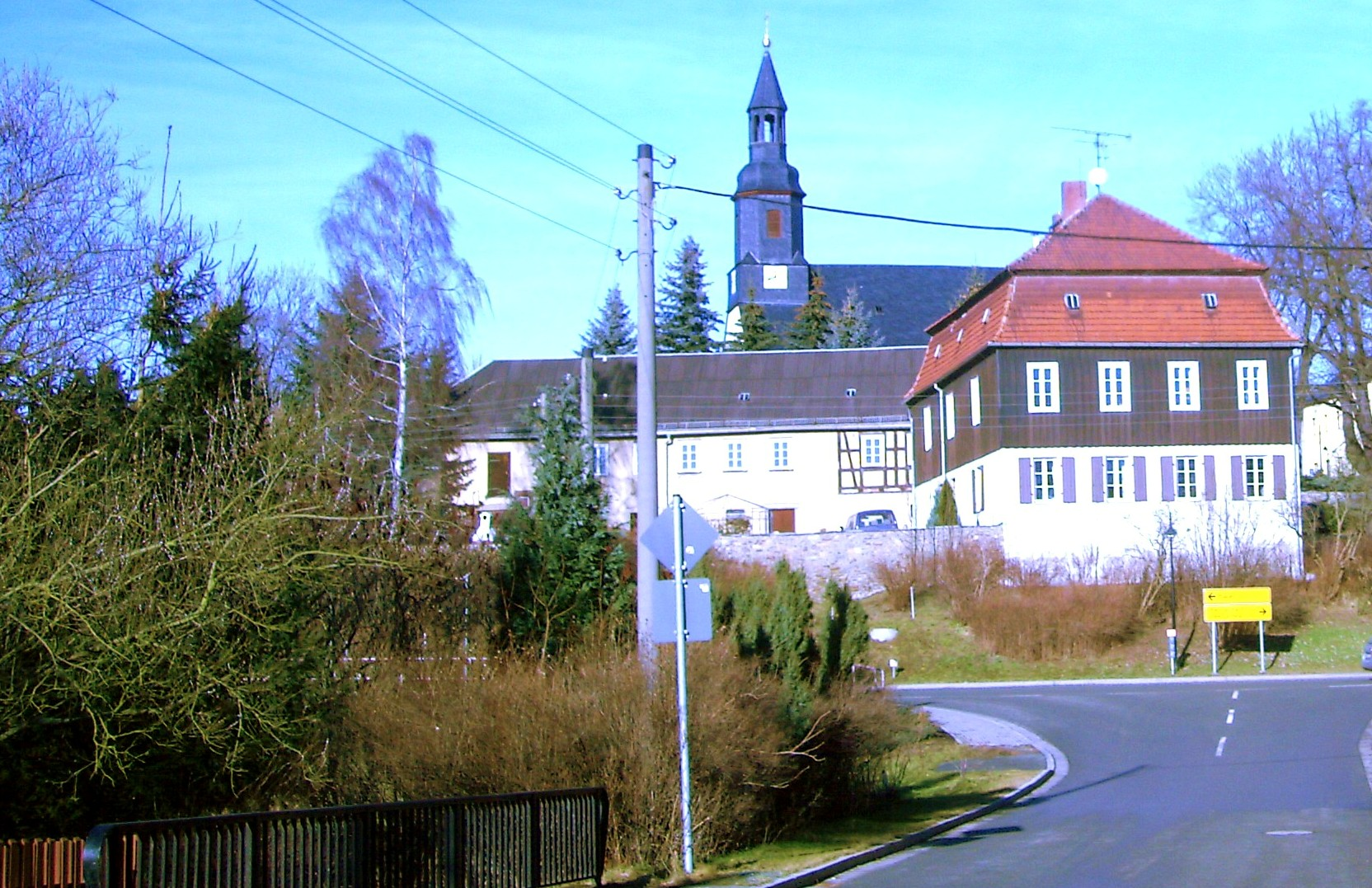 church St. Michaelis with parish and farm buildings in Limbach / Vogtland